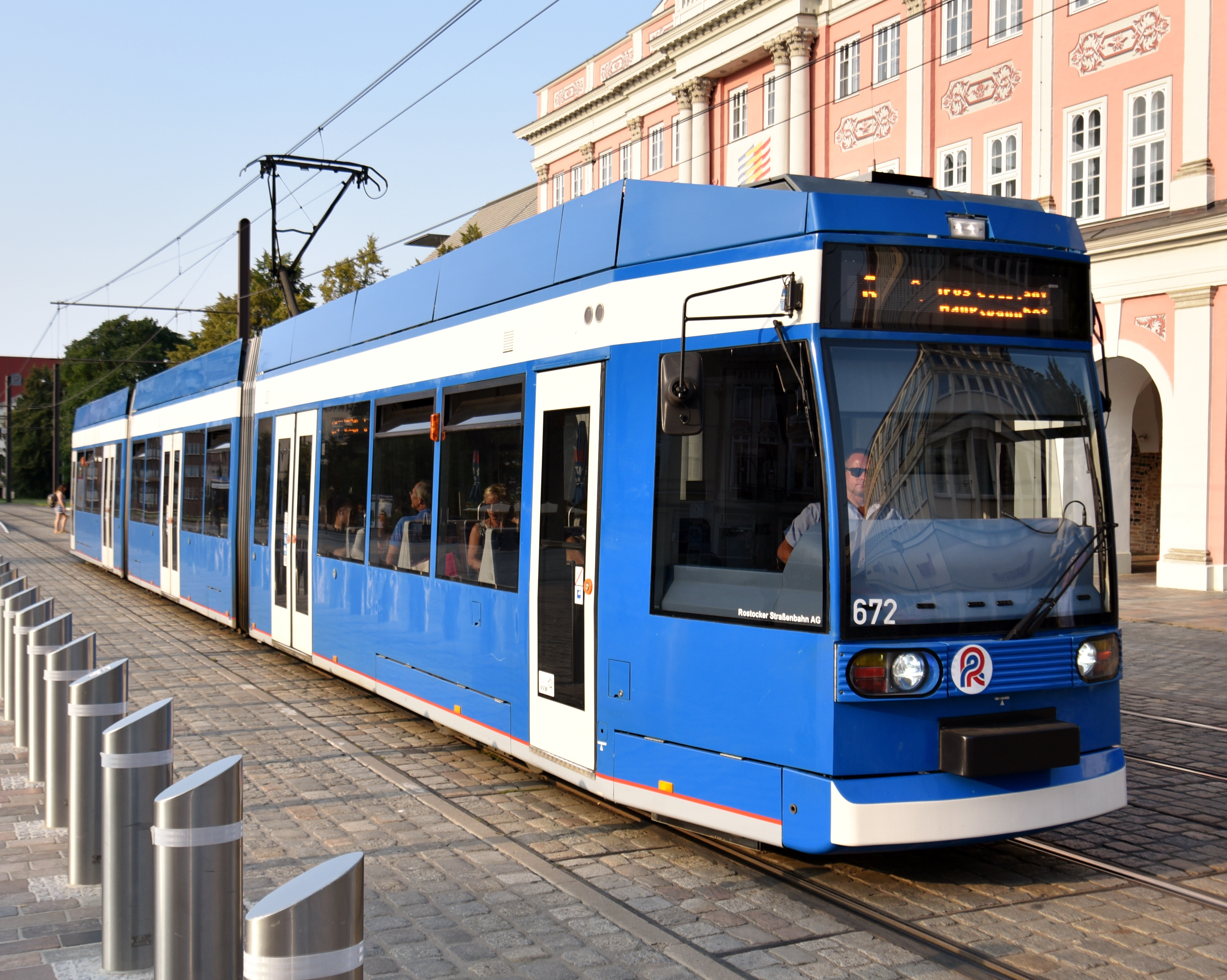 Rostocker Straßenbahn AG (RSAG) tram no. 672 operating a Südblick-bound line 5 service in Neuer Markt, Rostock, Germany